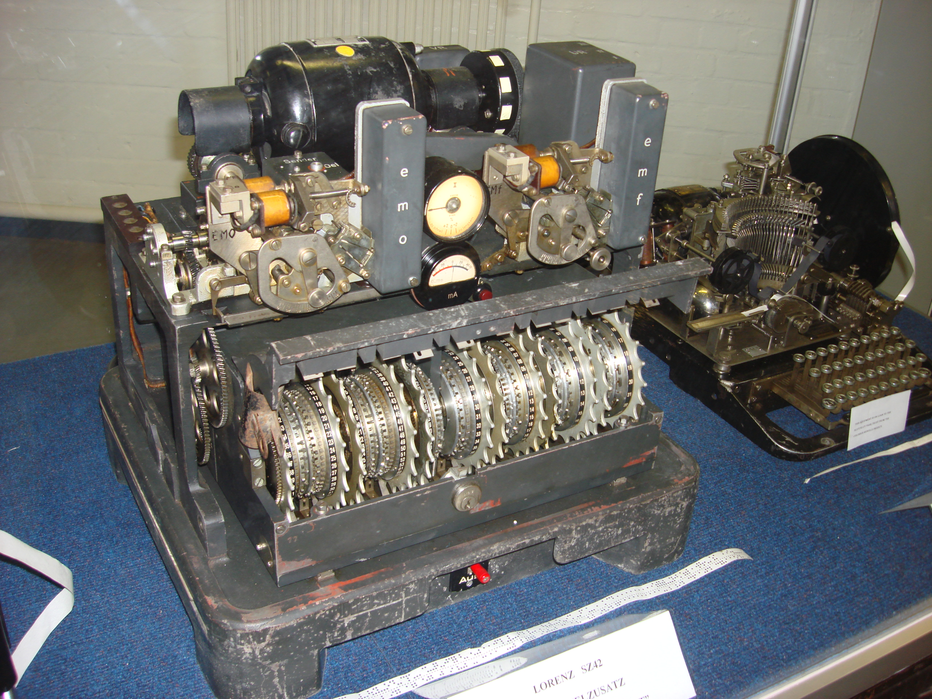 Lorenz Ciper Machine.